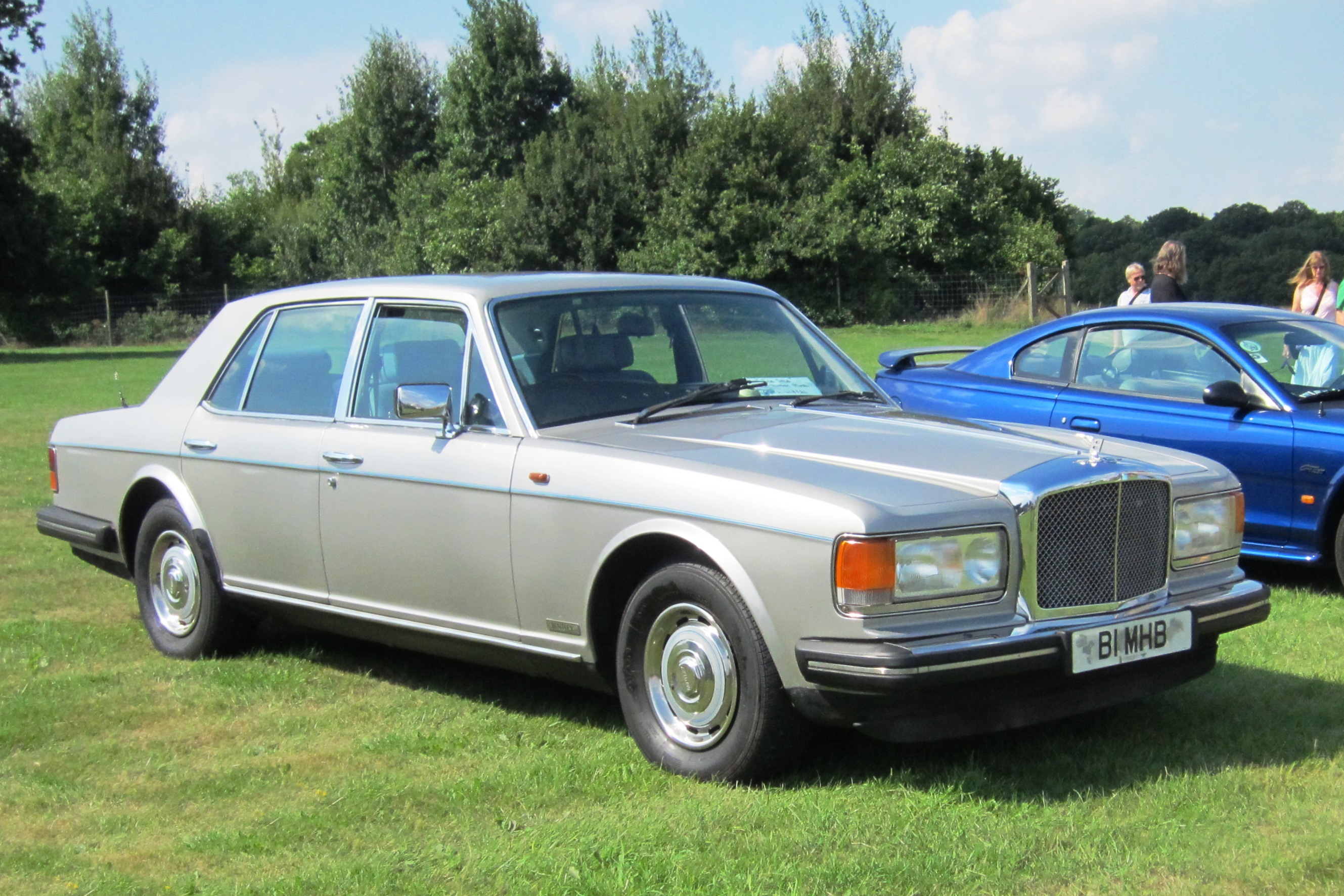 Bentley Eight (1985)